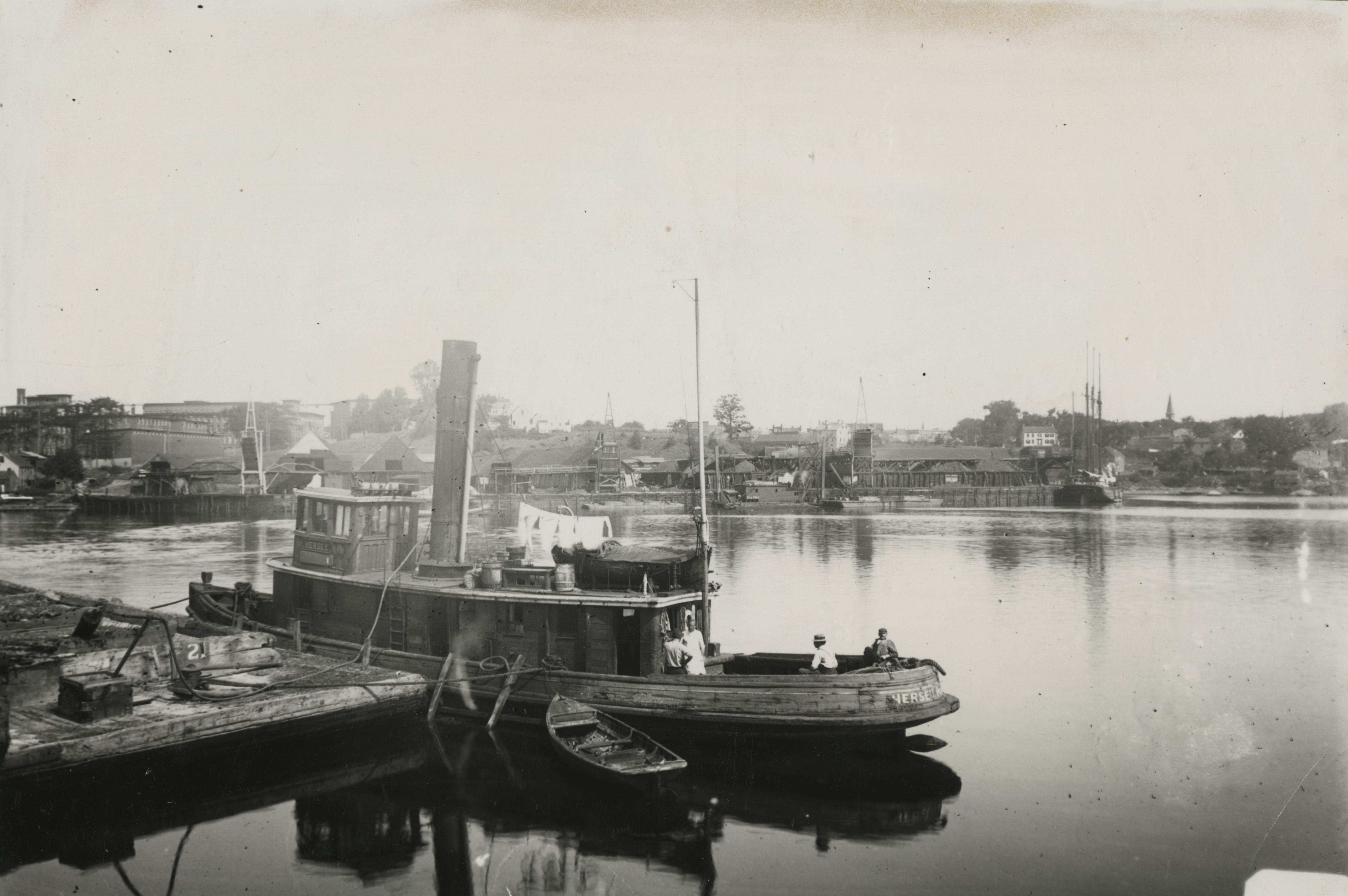 The tugboat 'Hersey' tied up near Bragdon's Wharf, Biddeford, Maine, 1912. The boat's crew have strung their laundry out to dry on a line attached to the boat's smokestack. York Mills and Factory Island are in the background on the left. Retouched by MarmadukePercy.